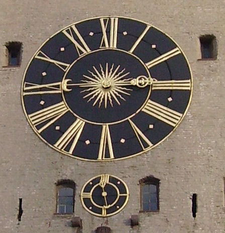 Altpörtel (historic town gate and tower) of Speyer in Germany Altpörtel